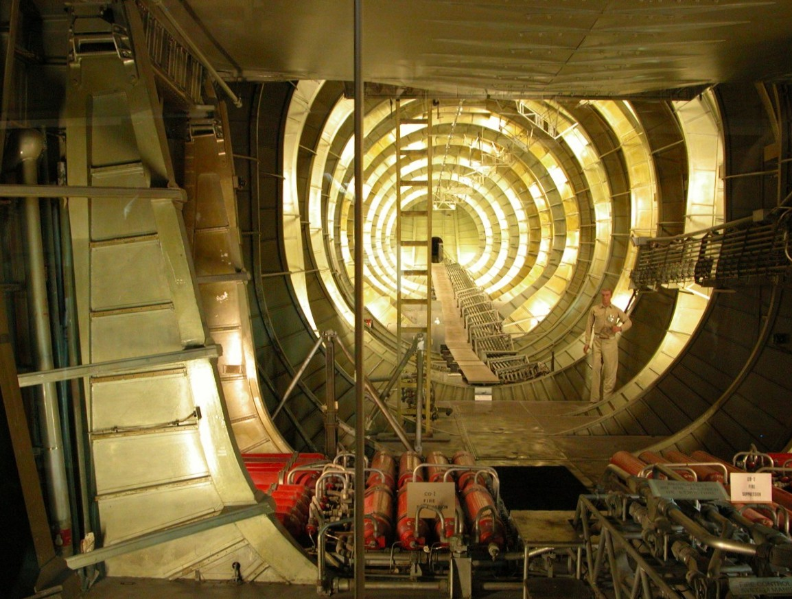 Internal view of the Hughes H-4 Hercules fuselage.